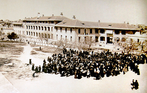 Николаевское подворье ИППО